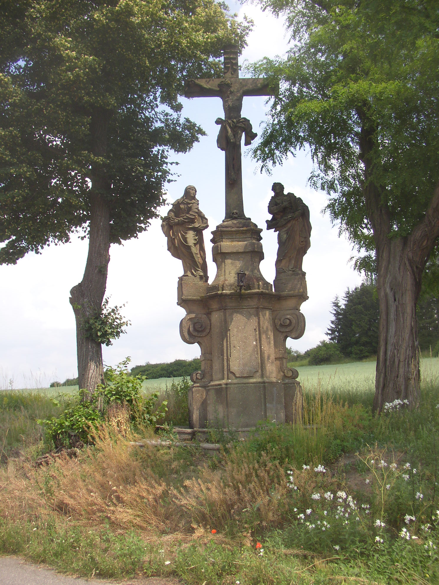 Podmokly municipality, Rokycany District, Czech Republic. Baroque Calvary sculptural group northeast of the village, besides Hradiště road.